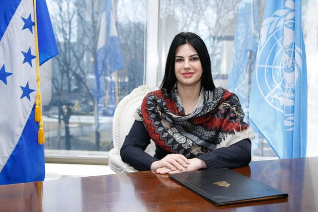 A picture of Mary Elizabeth Flores